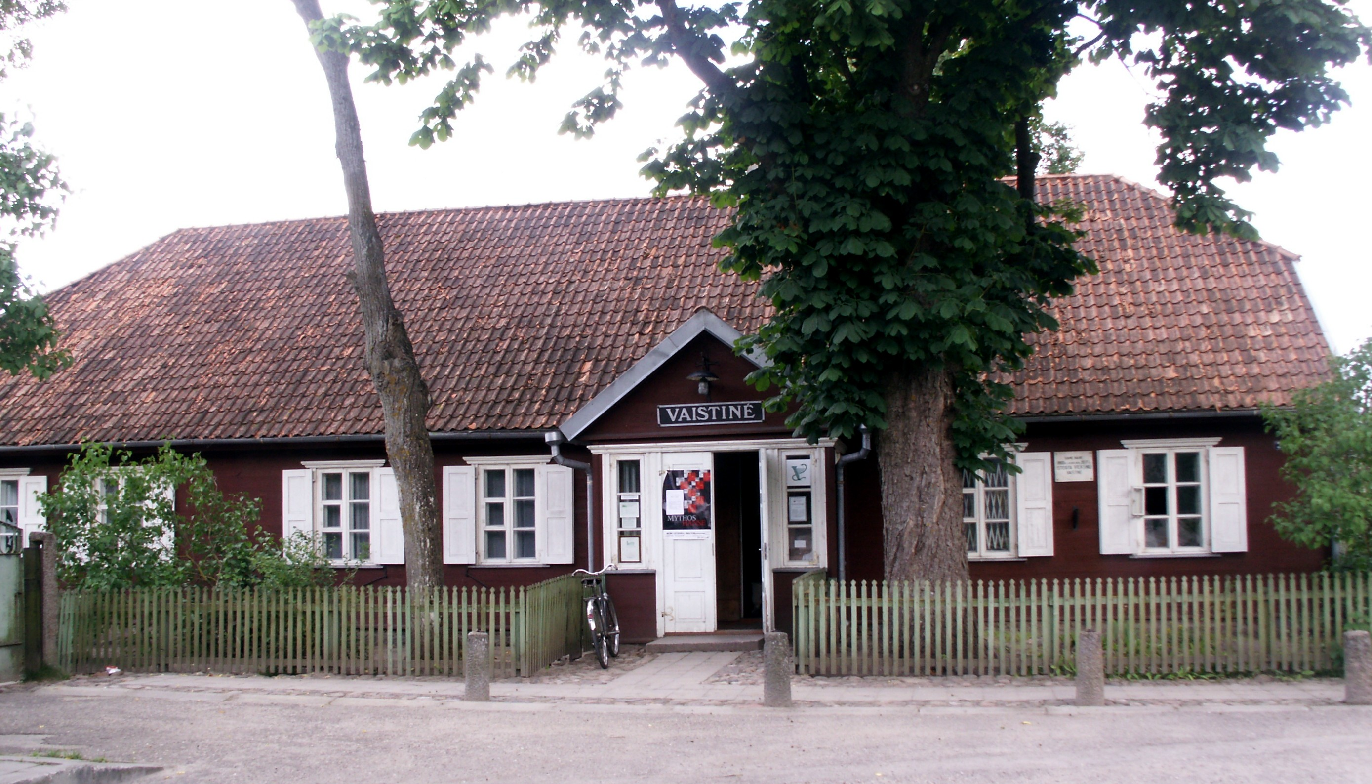 Viekšniai, Lithuania